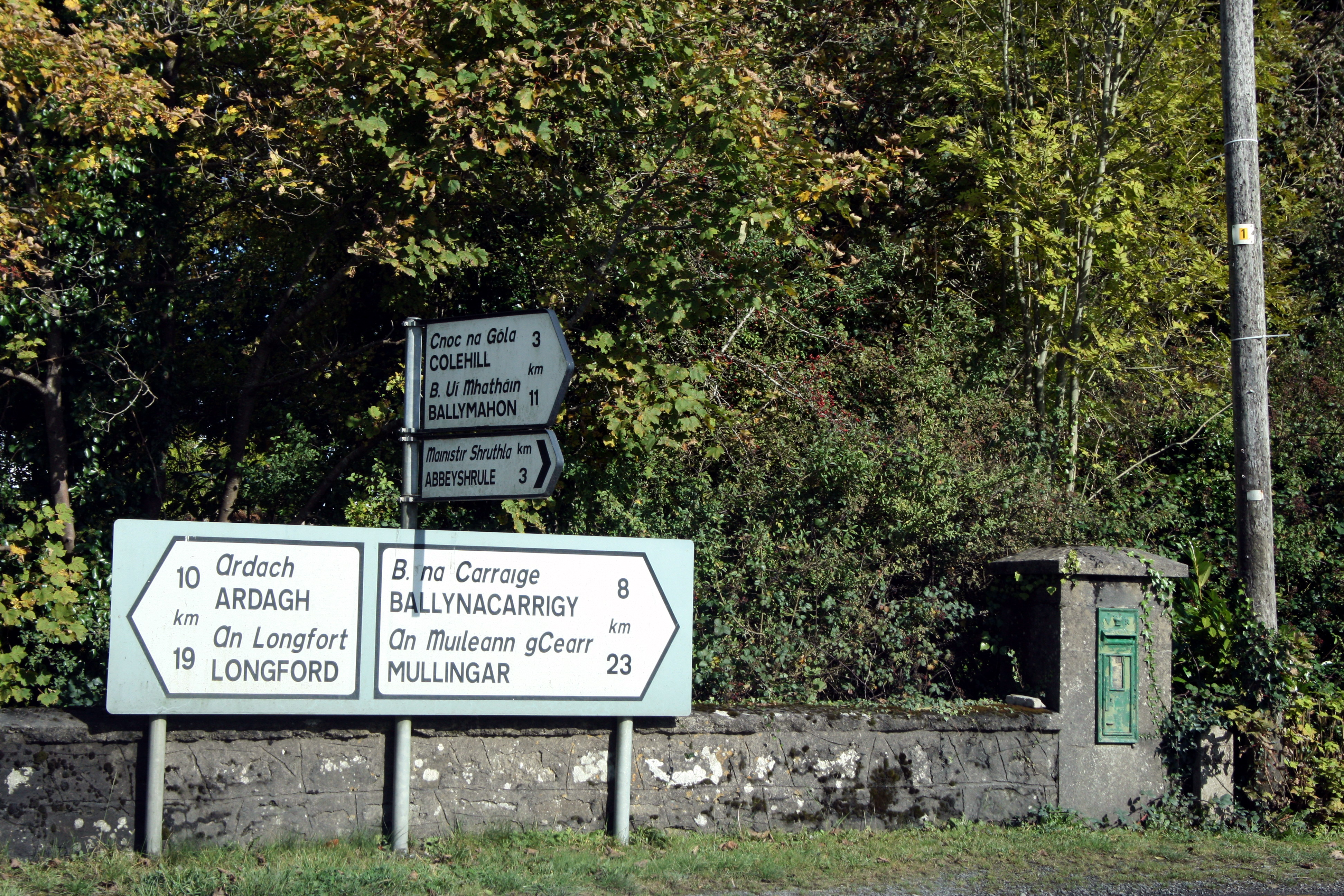 Ratharney, County Longford (2), near to Abbeyshrule, Ireland. Supplemental to show the signs - some glare from the bright Autumn sunshine the camera struggled to cope with!